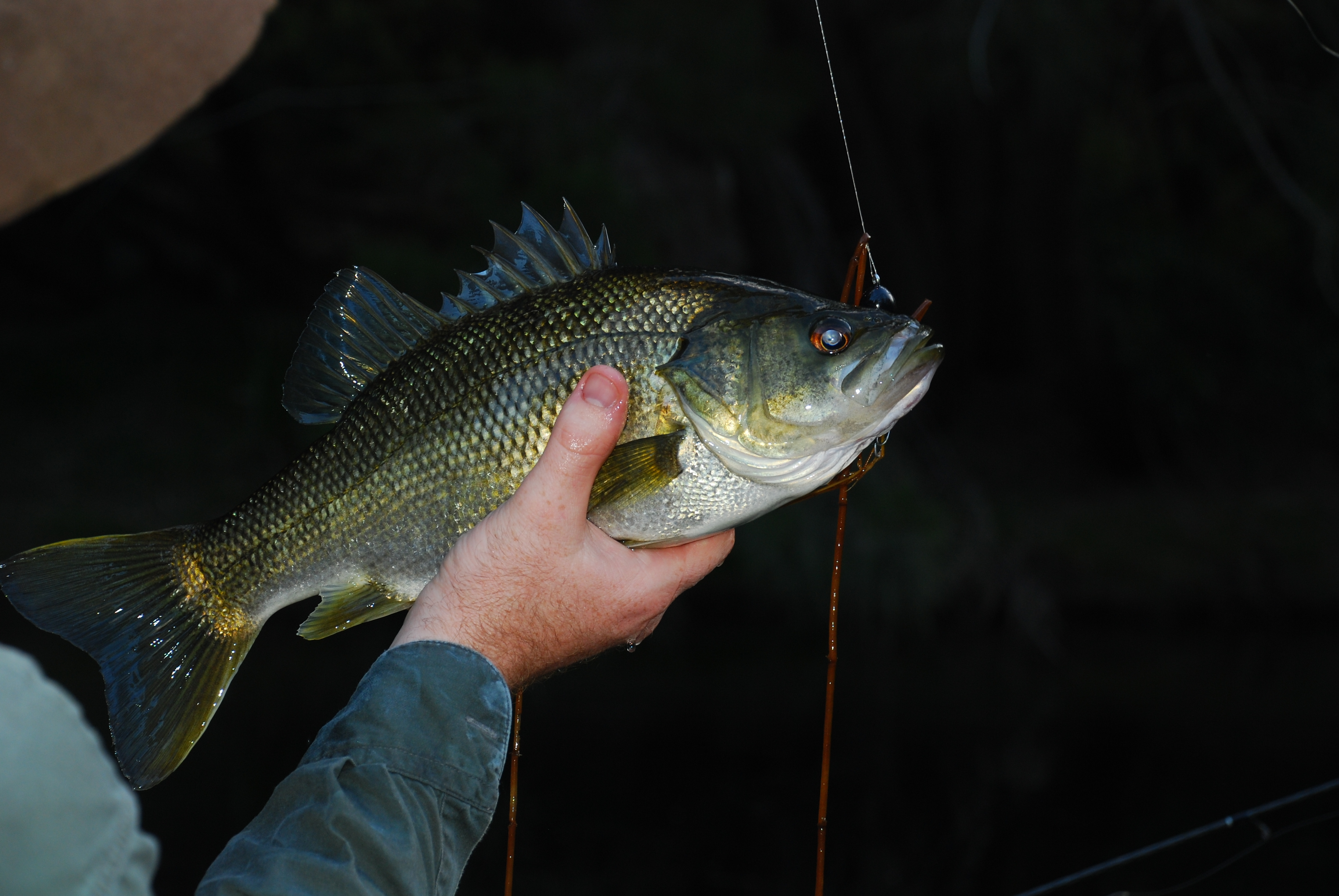 An Australian bass caught in the freshwater reaches of a coastal river in summer. It was caught on a surface lure equipped with barbless hook and was carefully released after the photo.